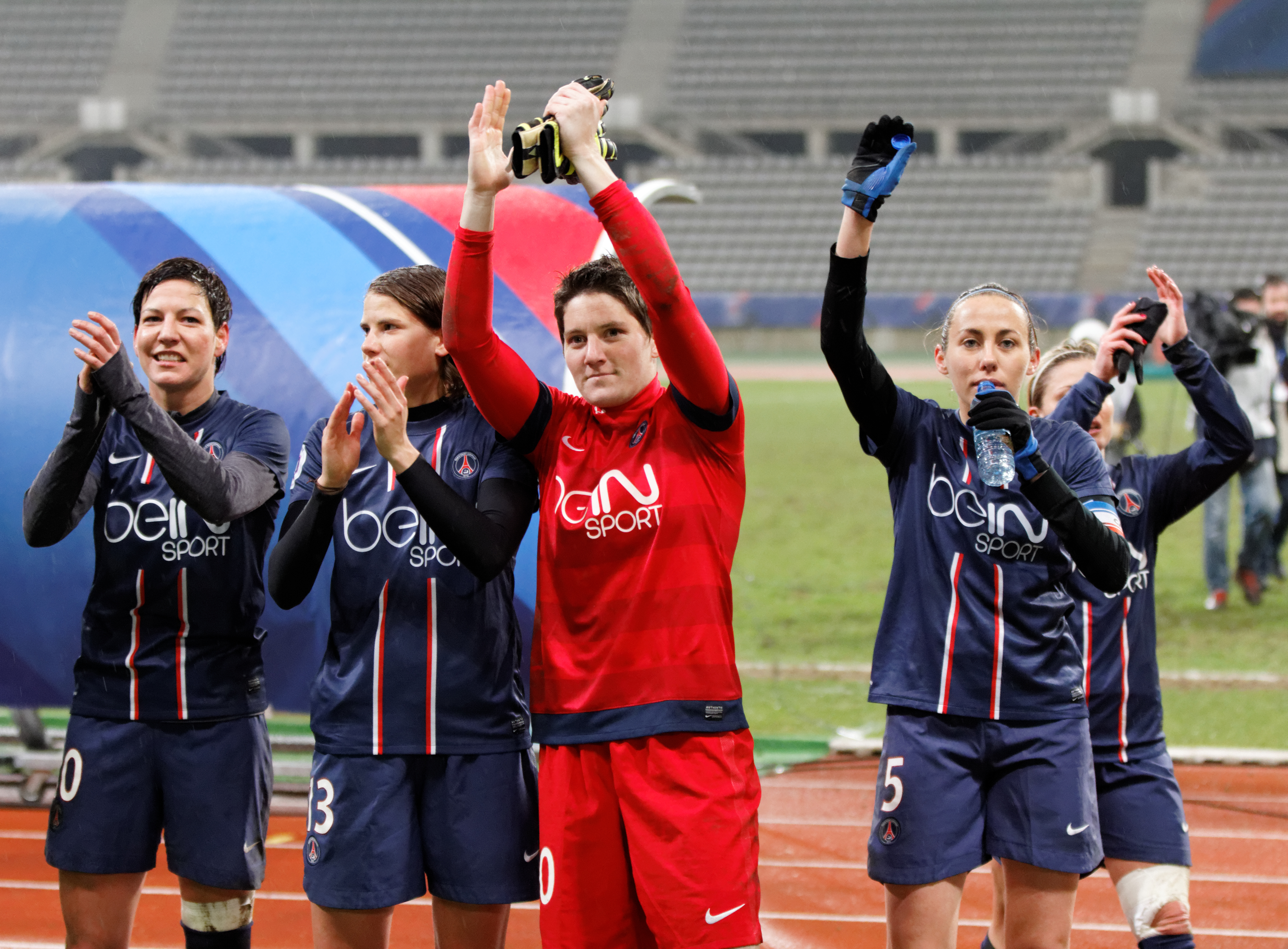 PSG-Montpellier, January 13th, 2013.